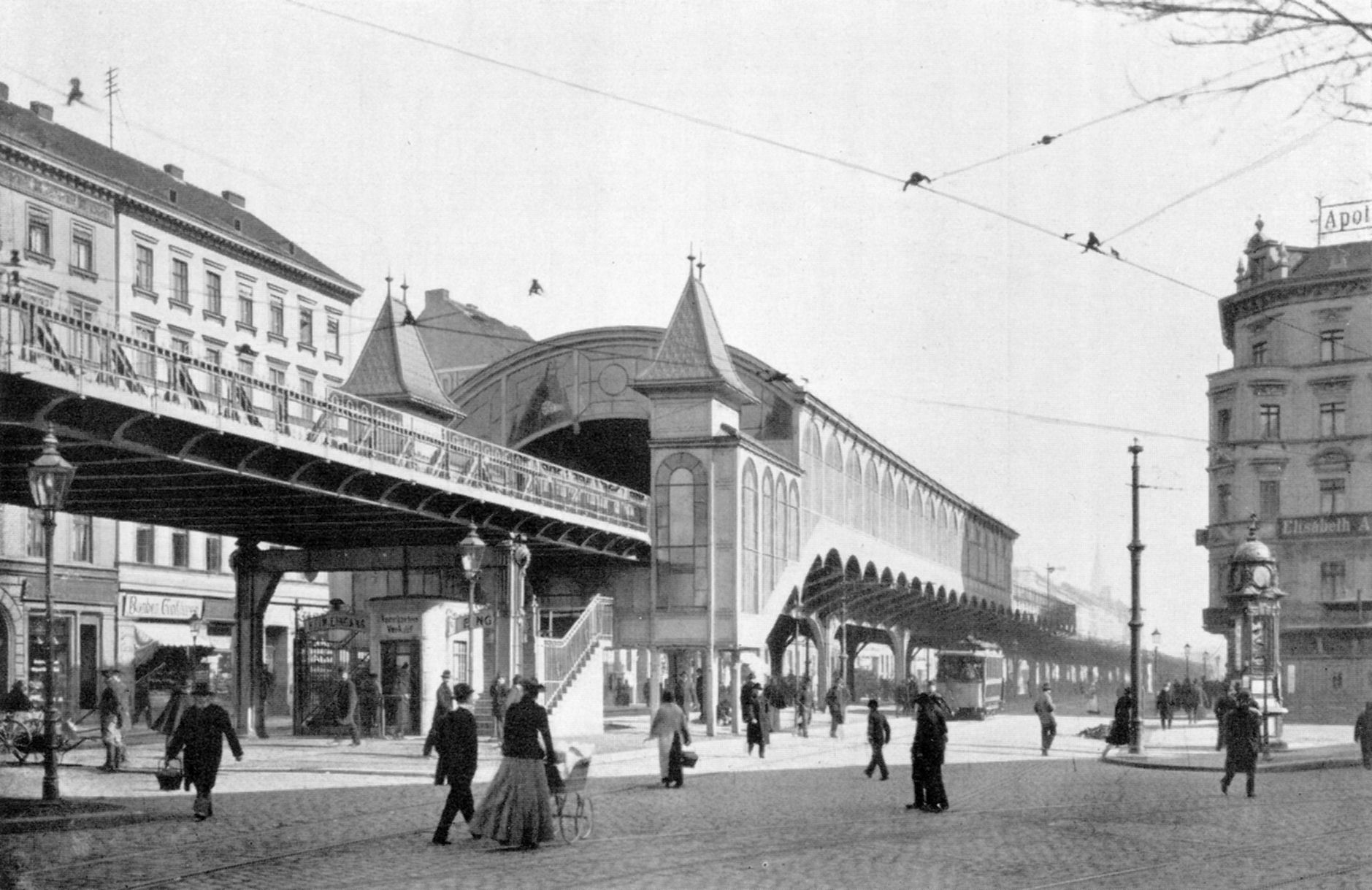 the elevated U-Bahn station Kottbusser Tor in Berlin